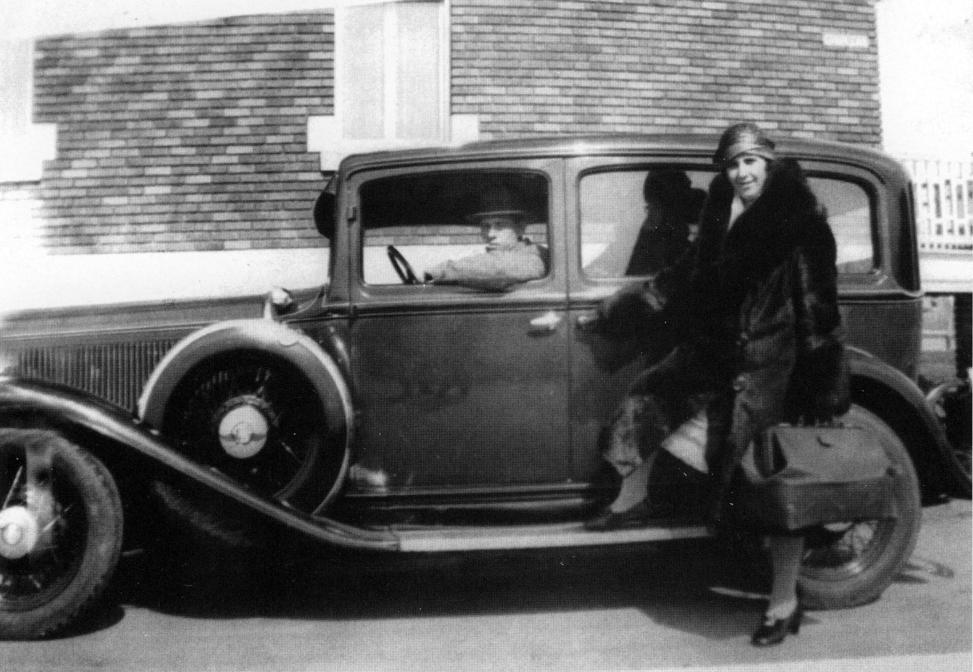 Mary Travers Bolduc